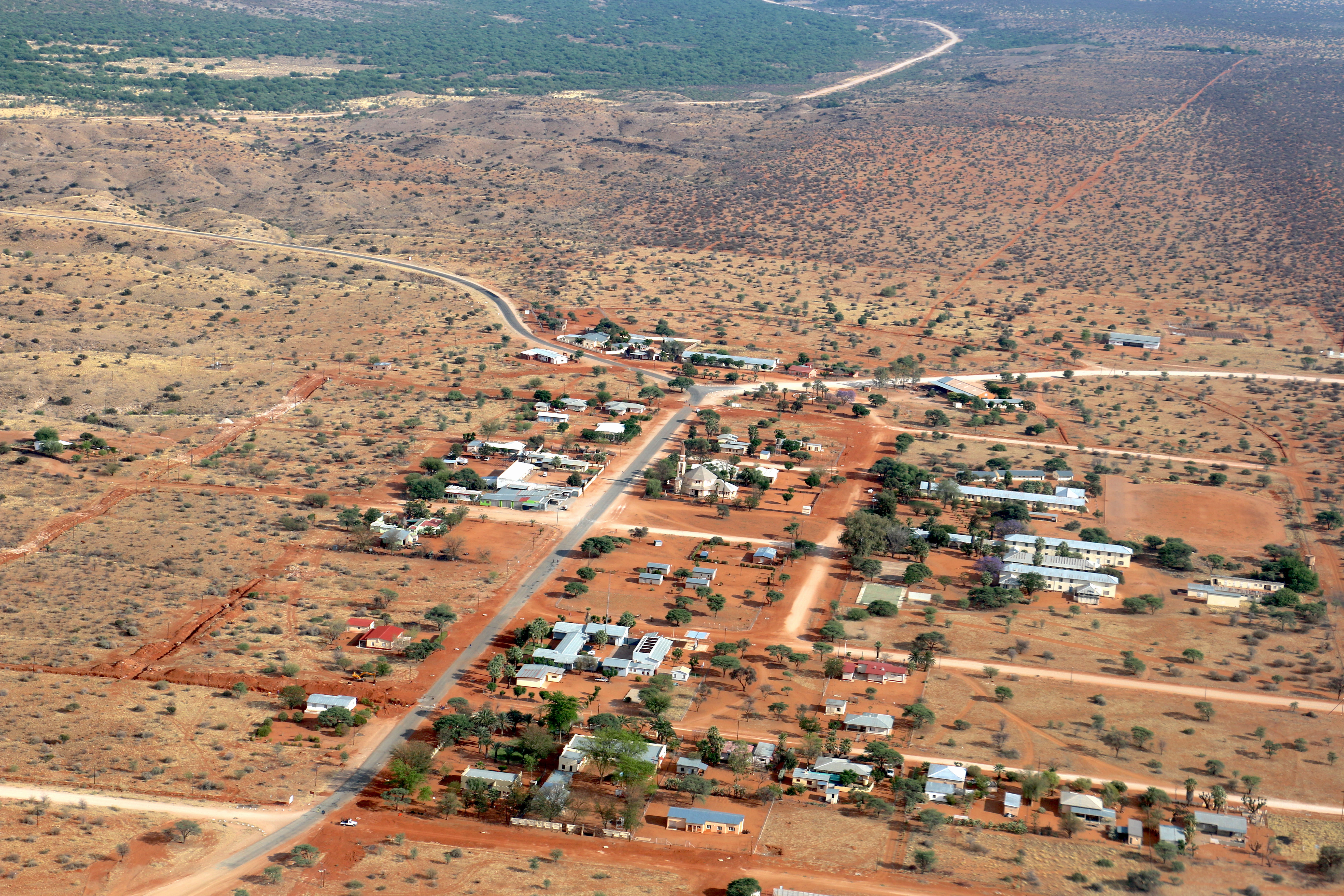 Bird's eye view of Leonardville (Picture from October 2015)